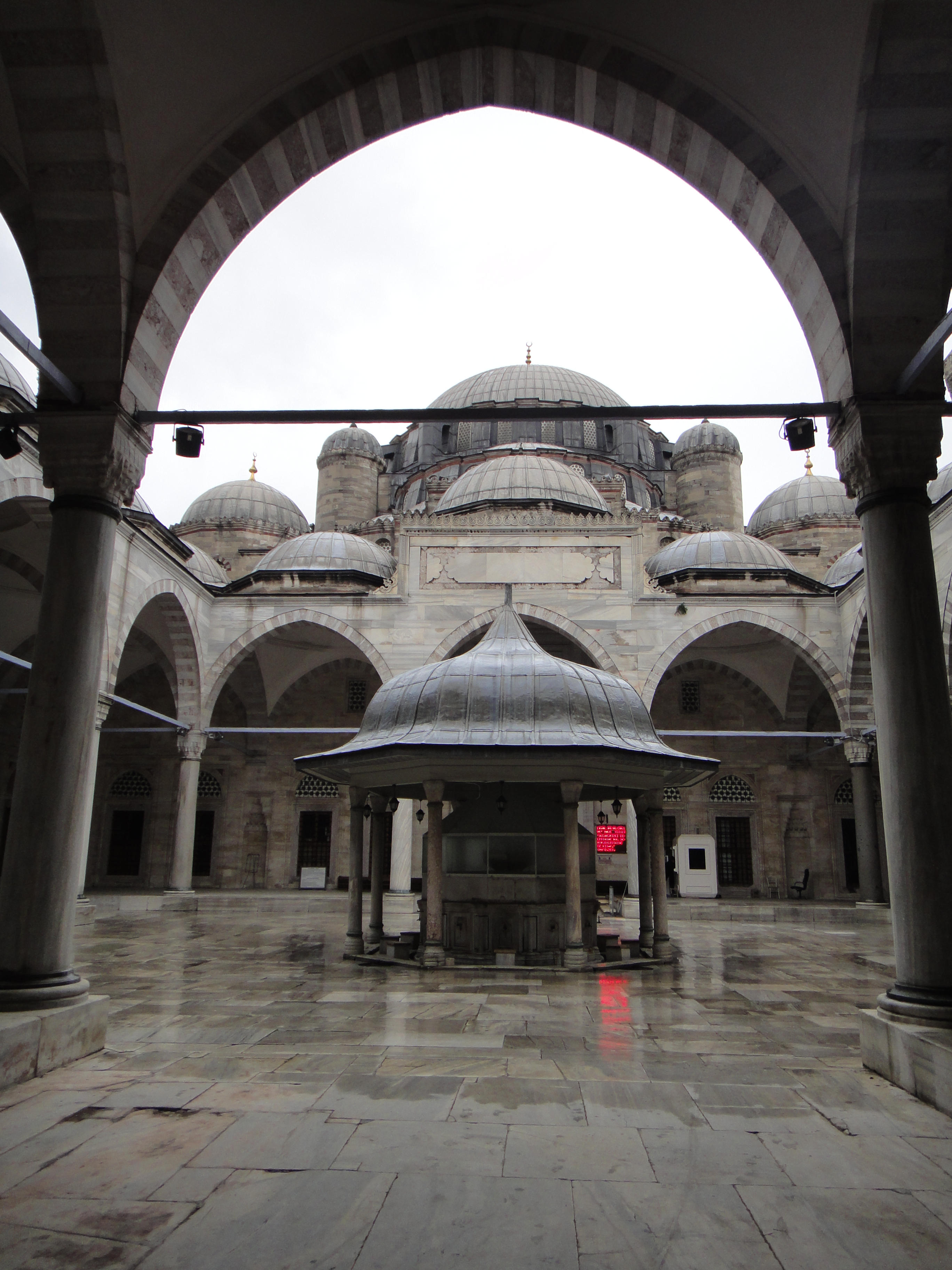 Courtyard of the Şehzade Mosque, Istanbul.